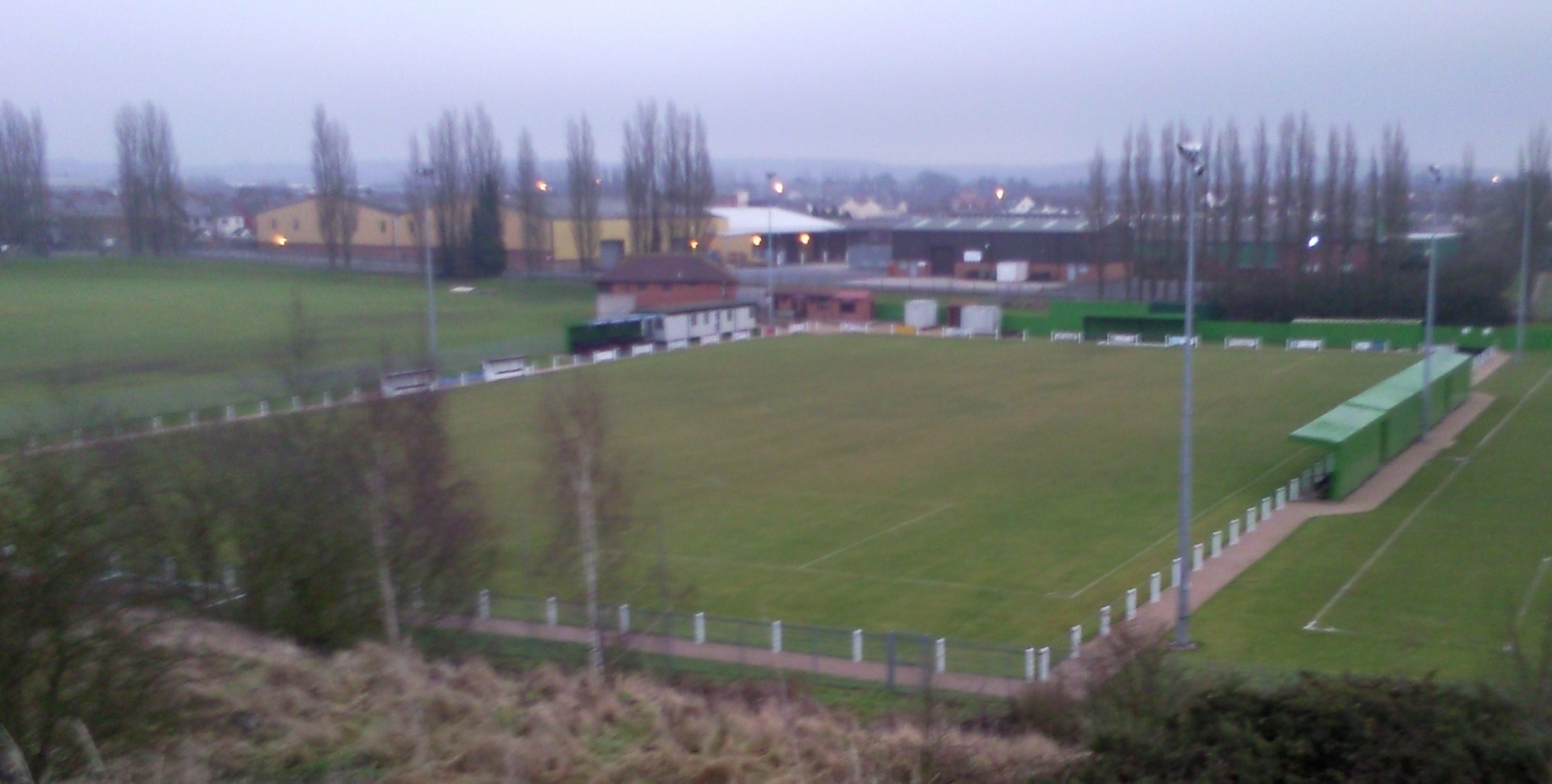 Home ground of Coalville Town F.C. Taken by myself, January 2010